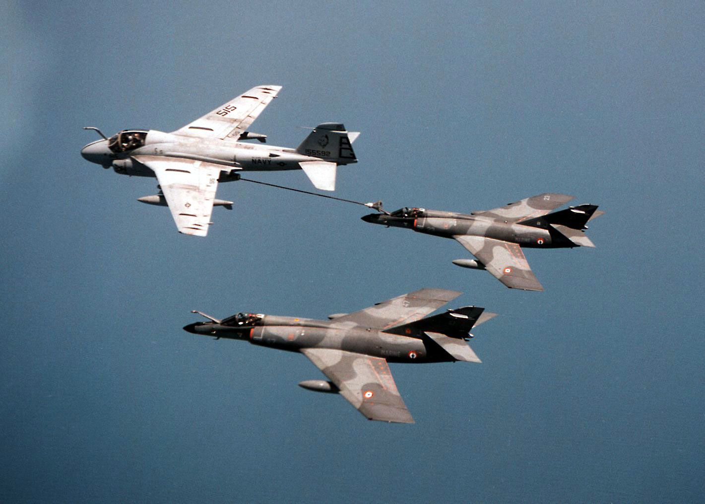 U.S. Navy A-6E Intruder (Bu No 155592) using a belly mounted 'buddy' pack, performs in-flight refueling with a French Navy Super Etendard (right) while operating in the western Mediterranean Sea, June 19, 1996. The Intruder was flying from the deck of the aircraft carrier USS George Washington (CVN 73), while the Super Etendards were operating from the French aircraft carrier Clemenceau (R 98). The two carriers and their aircraft used the opportunity to practiced underway replenishment and in-flight refueling respectively. The Intruder is attached to Attack Squadron 34 'Blue Blasters', of Naval Air Station Oceana, Virginia USA.